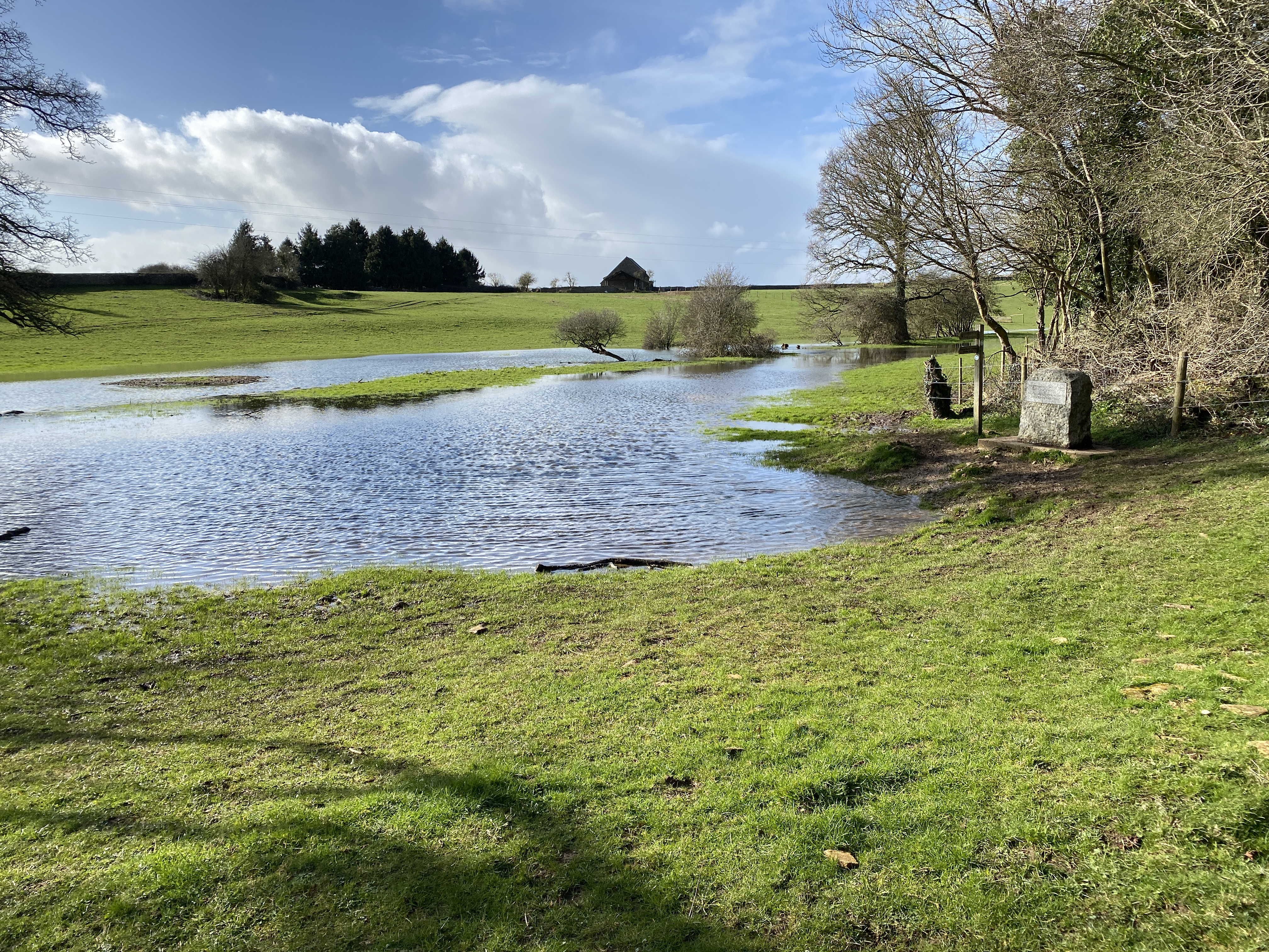 Monument in flood. Note that the Wysis Way West of this point all the way to the canal was also under water. Taken 1st March 2020